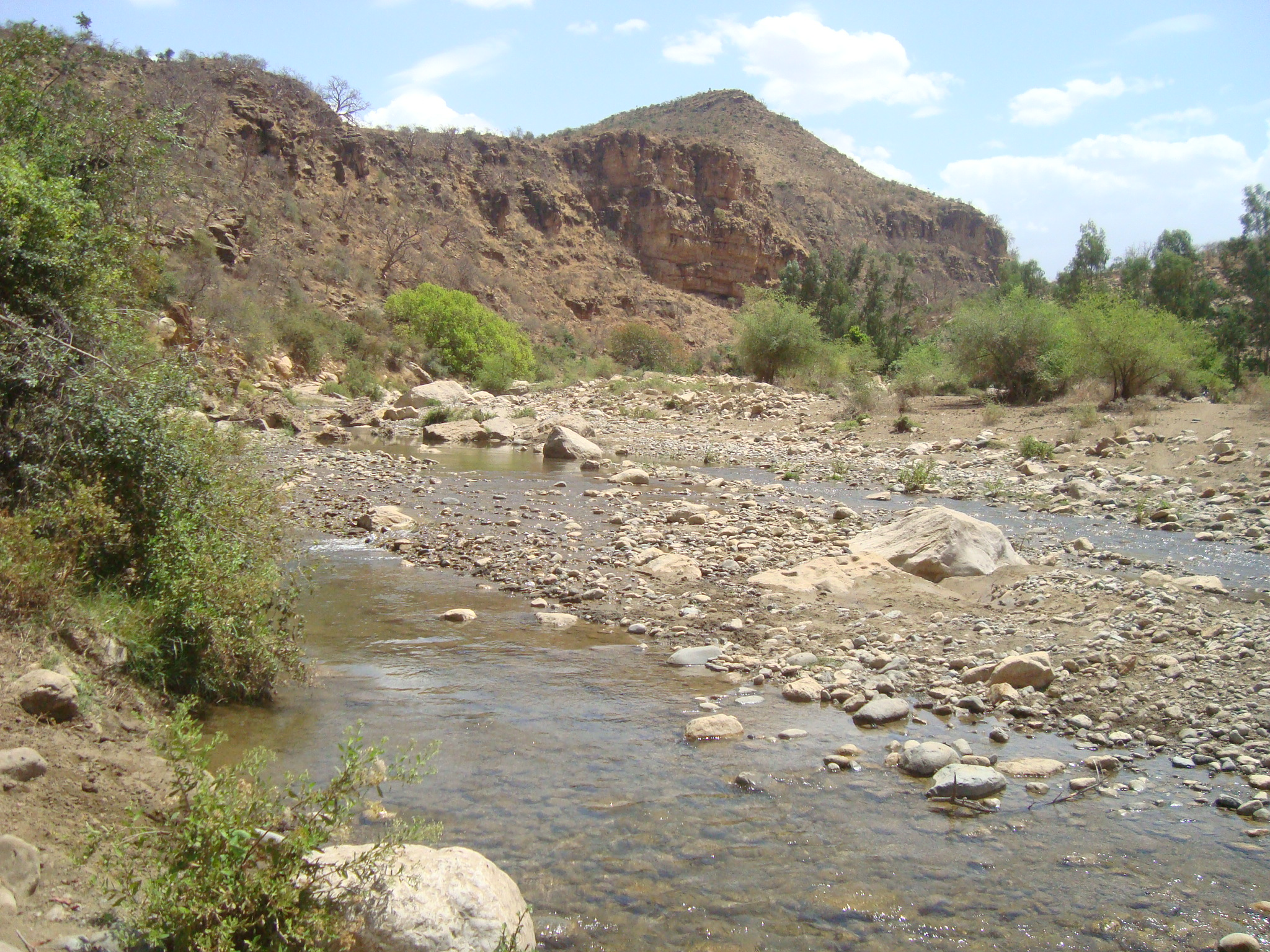 Gabat near outlet